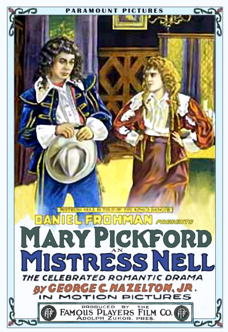 Poster for the American historical drama film Mistress Nell (1915) with Mary Pickford.